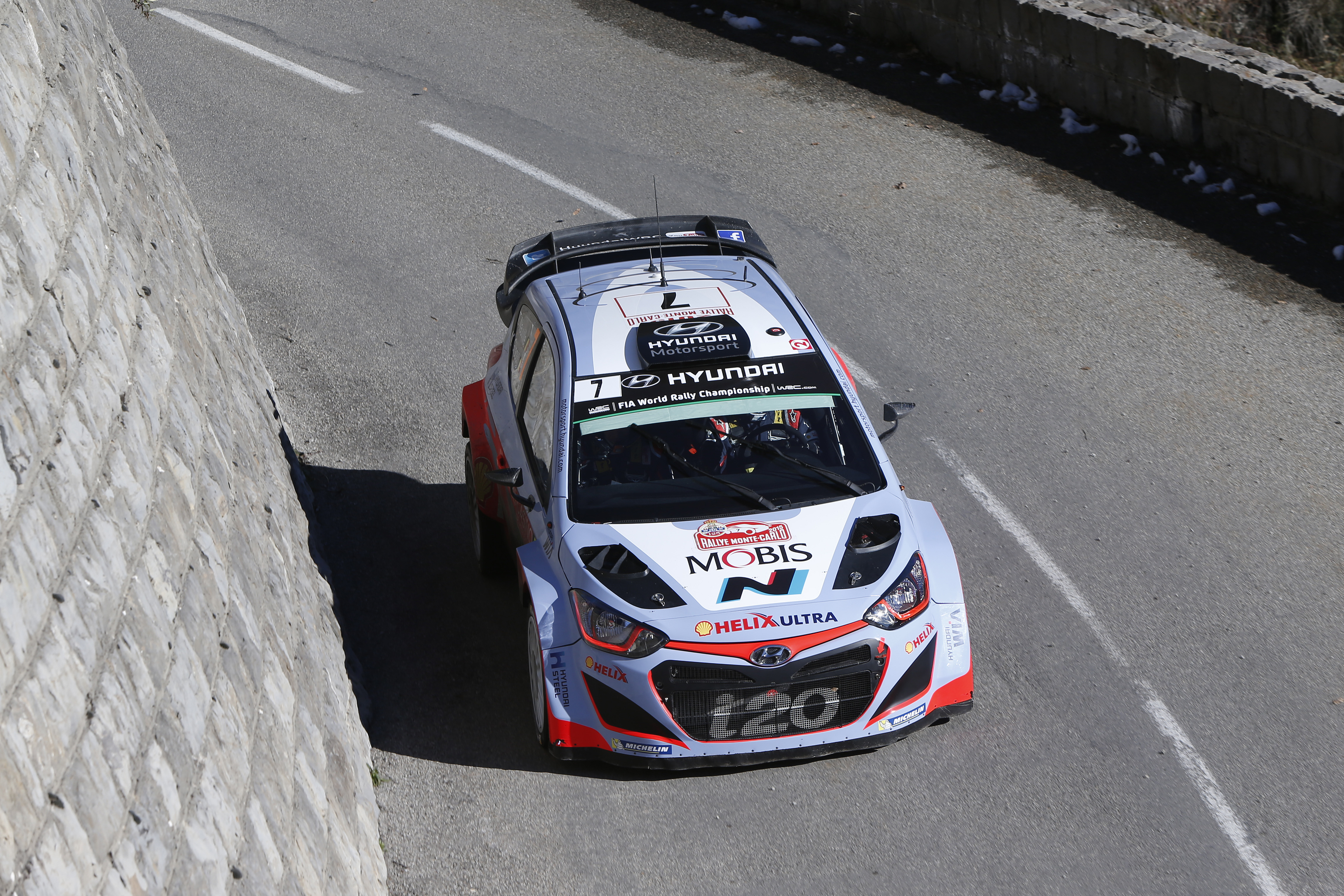 Thierry Neuville and co-driver Nicolas Gilsoul in their Hyundai i20 WRC at the 2015 Rallye Automobile Monte Carlo.